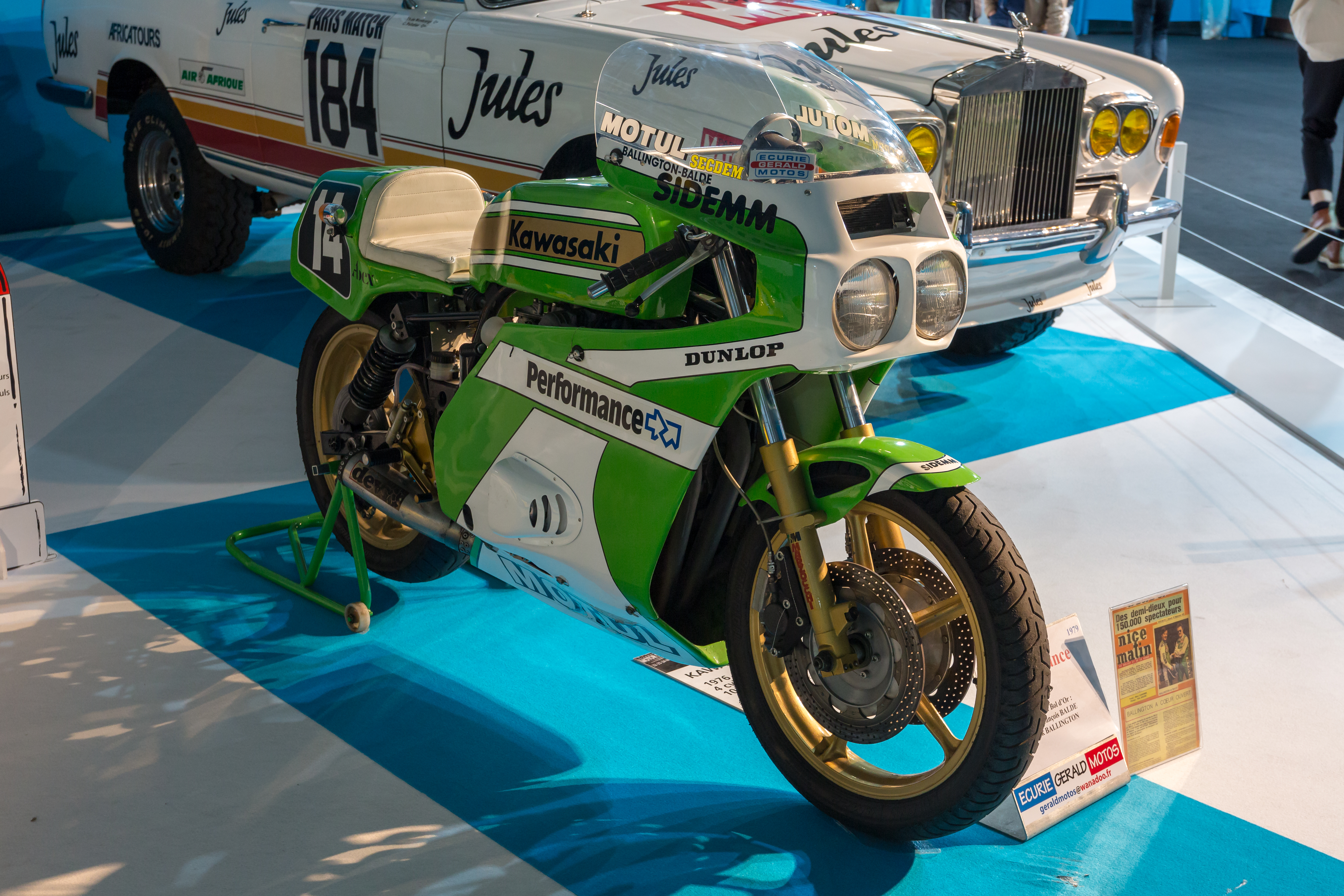 Kawasaki racing motorcycle, pilots: Kork Ballington and Jean-François Baldé.